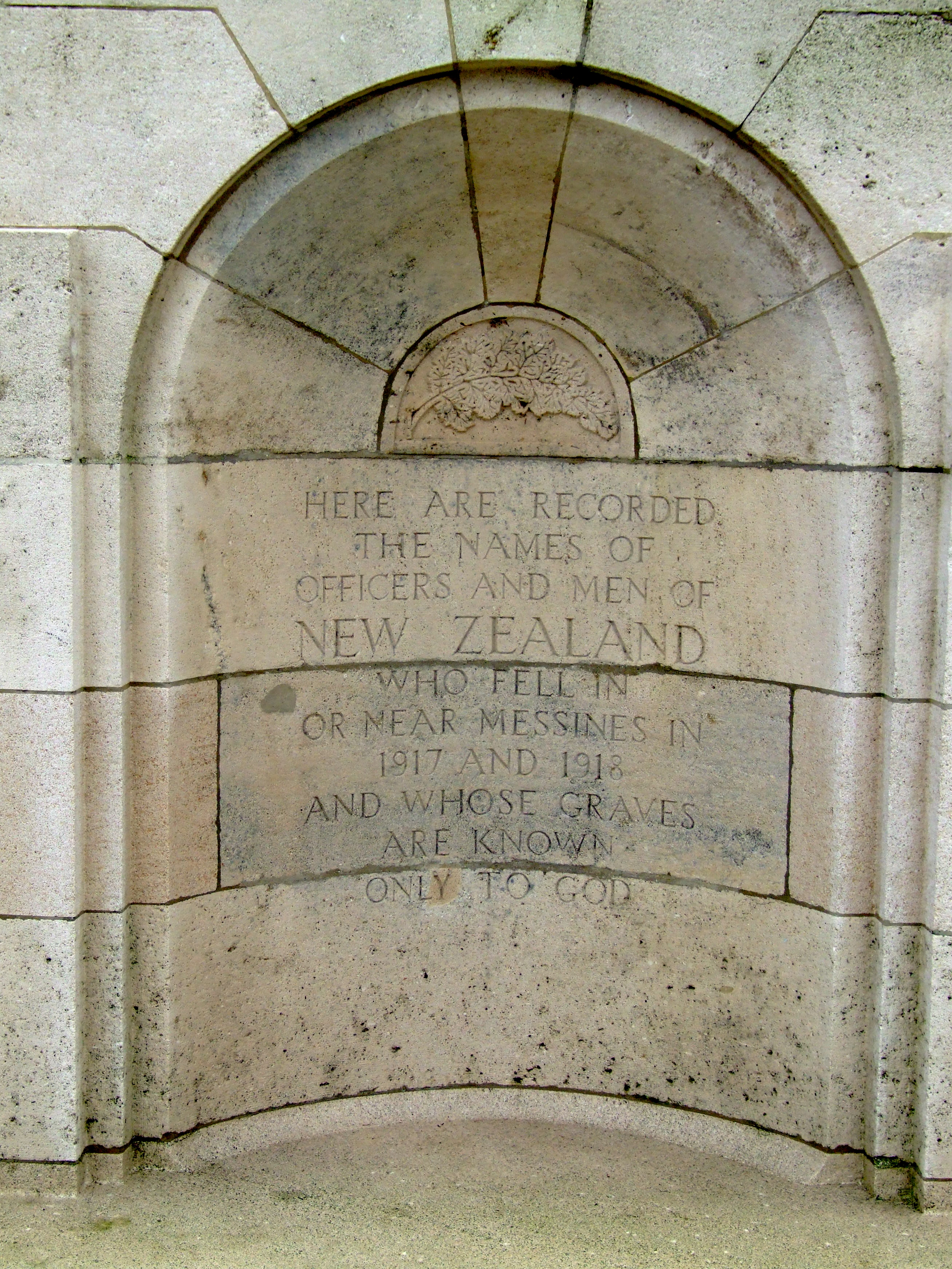 Messines Ridge Memorial to the Missing, maintained by the Commonwealth War Graves Commission